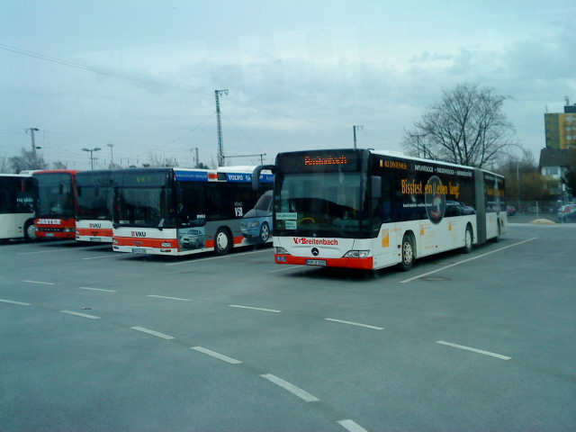 Busses at Unna Station